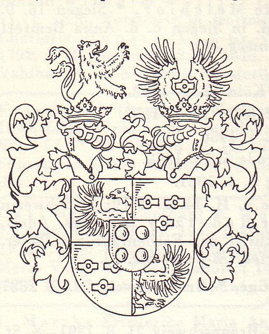 Arms of the Xylander family (Germany)